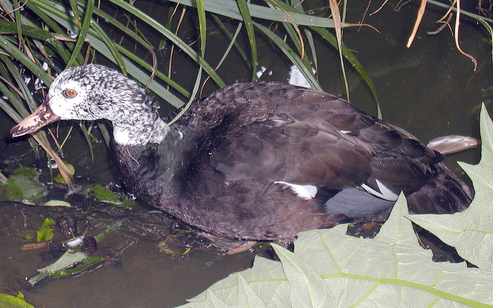 White-winged Wood Duck at Bristol Zoo, Bristol, England. Taken by Adrian Pingstone in August 2003 and placed in the public domain.